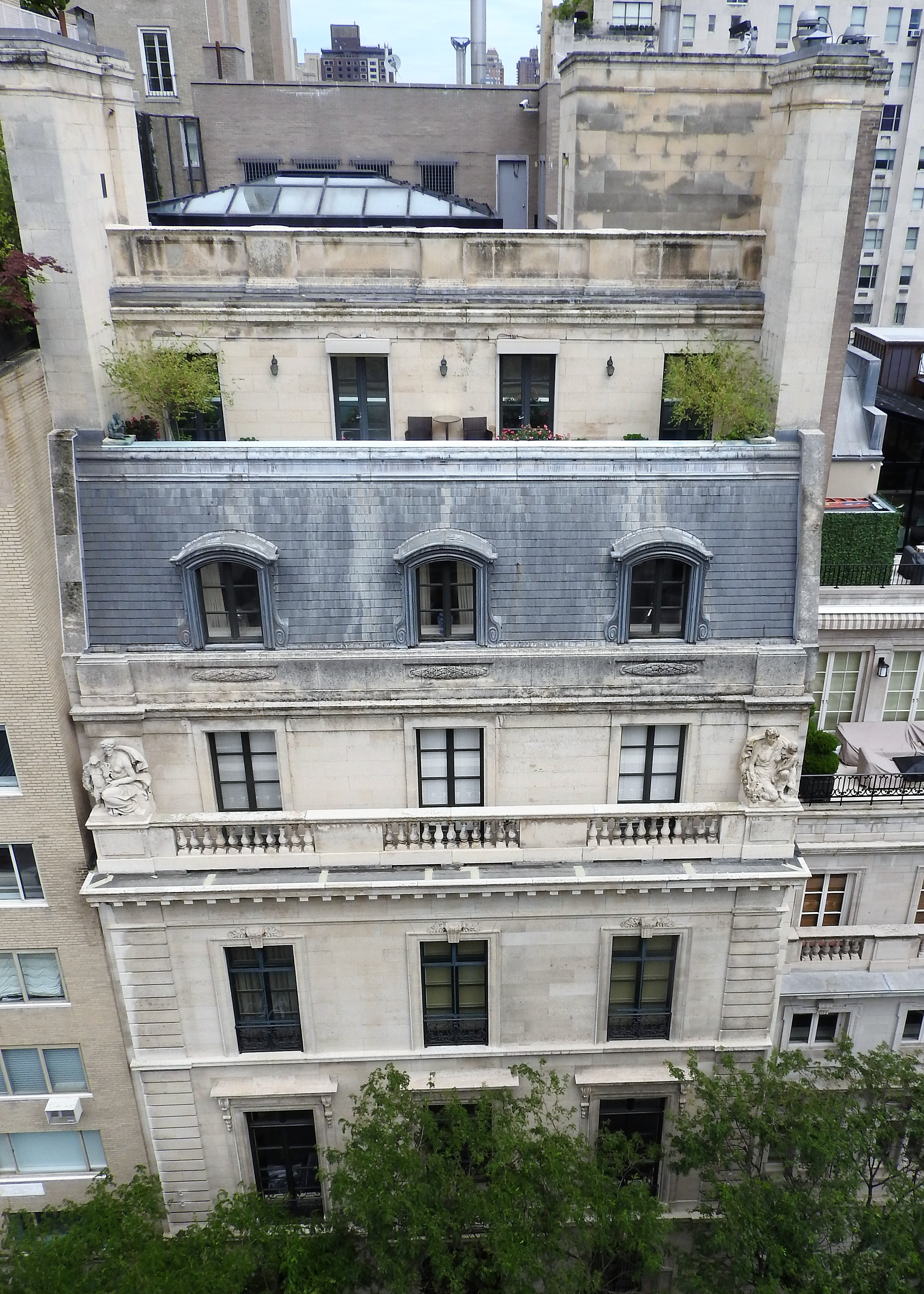 Looking north from Frick terrace at 9 East 71st Street on a cloudy day